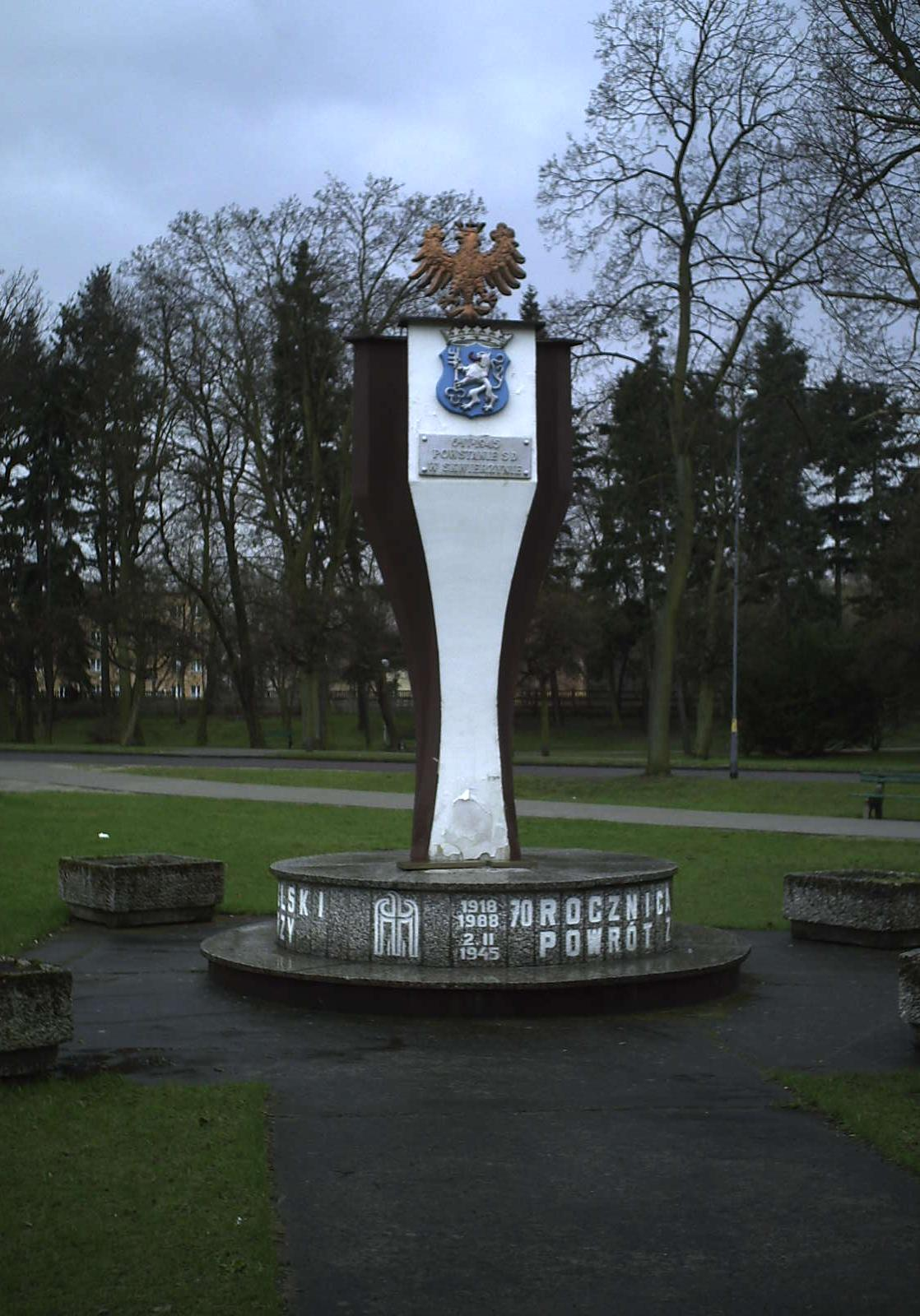 Monument of 70th anniversary of reuniting Polish west lands. Skwierzyna (lubuskie voivodship), Poland.